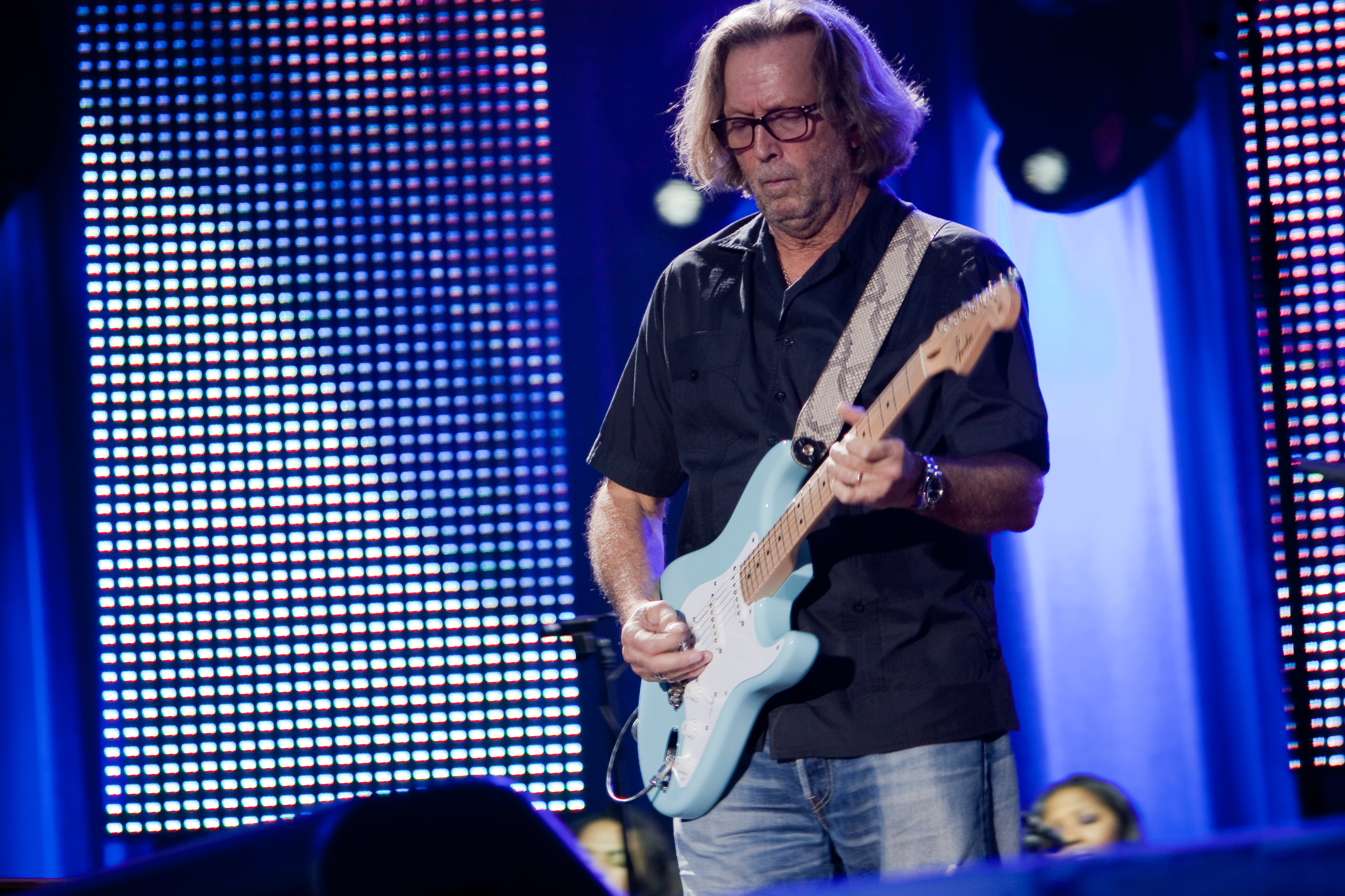 Living legend Eric Clapton in concert with Steve Winwood at the Königsplatz in München, Germany on June 5th, 2010